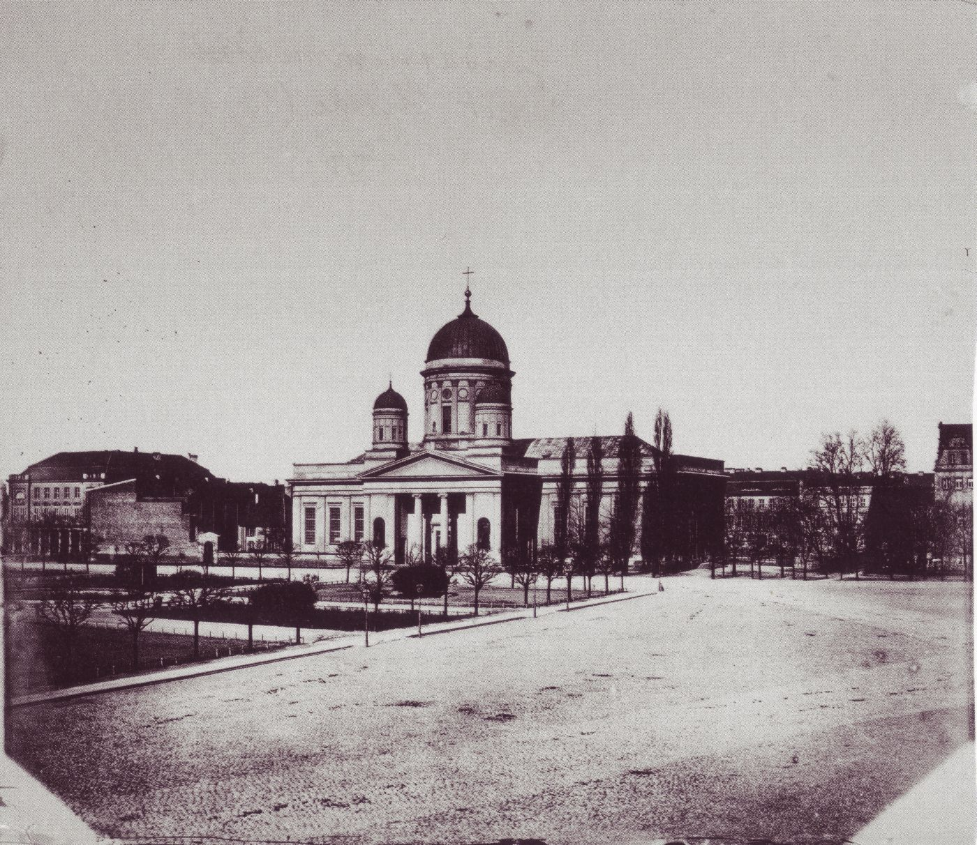 Berliner Dom, 1855 or 1856; building was demolished in the 1890s for the erection of today's Berliner Dom